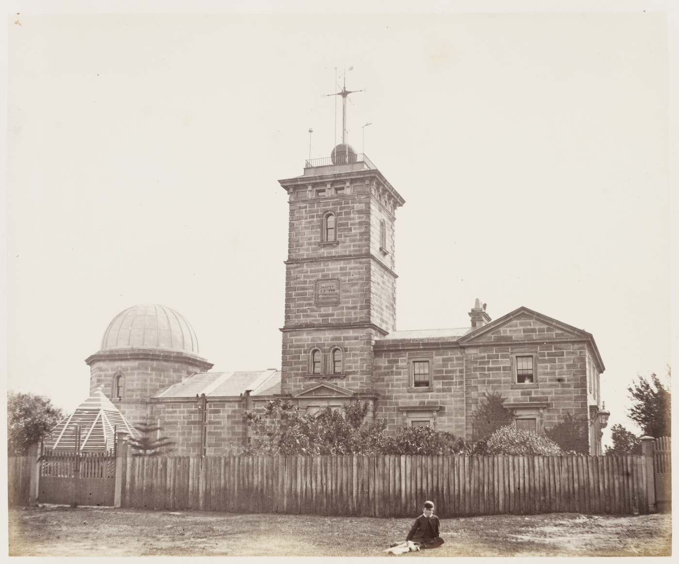 16. Observatory SH 198